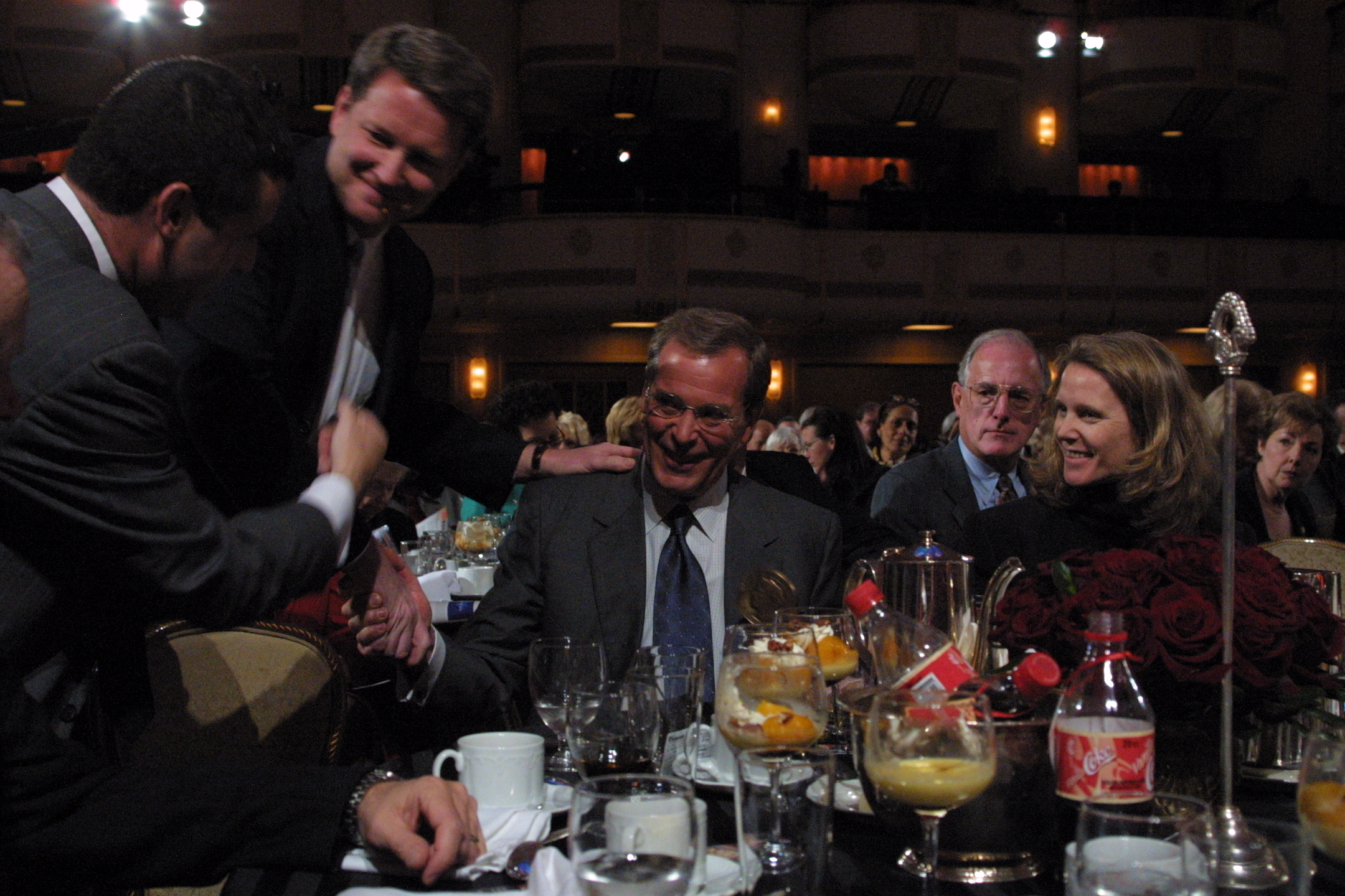 PHOTO CREDIT: ANDERS KRUSBERG / PEABODY AWARDS 61st Annual Peabody Awards Luncheon Waldorf=Astoria Hotel May 20, 2002